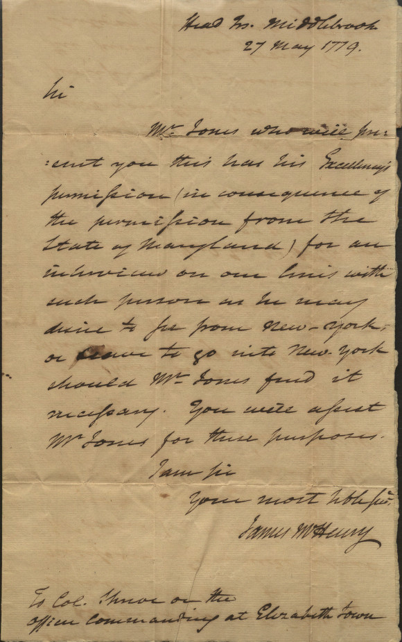 Correspondence from James McHenry to Shreve, or the officer commanding at Elizabethtown, on May 27, 1779. Sent from Headquarters in Middlebrook.